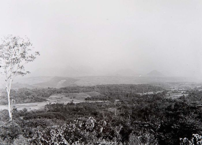 View over hills and ricefields, Neglasari